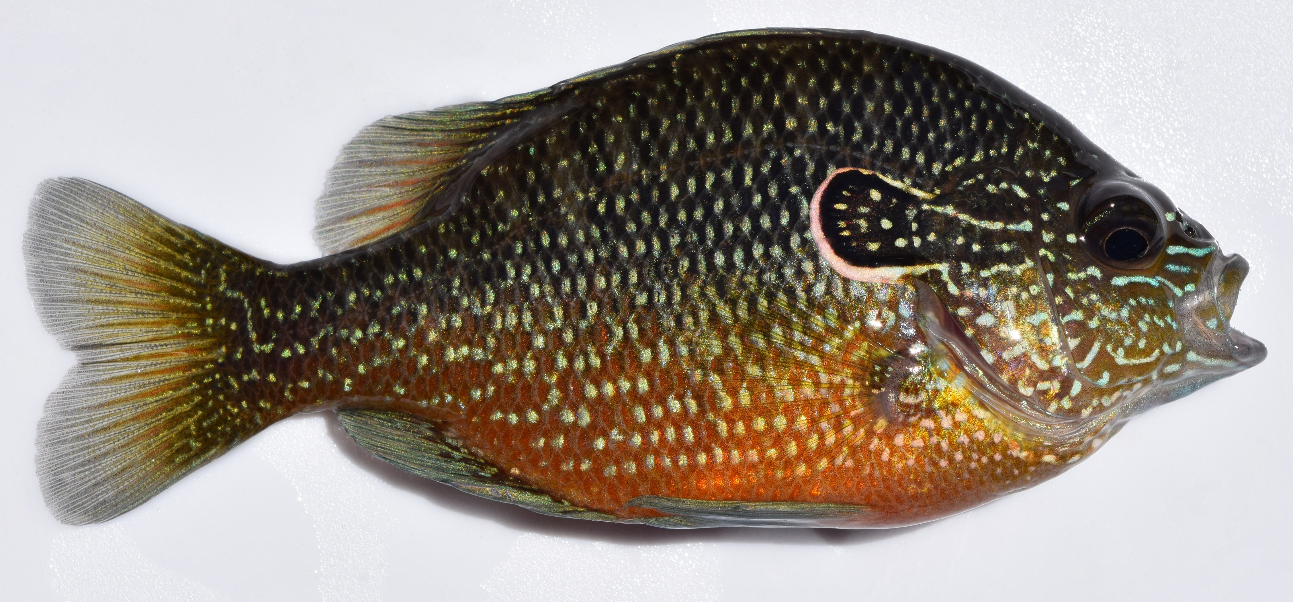 An adult Lepomis megalotis (longear sunfish) at the University of Mississippi Field Station.